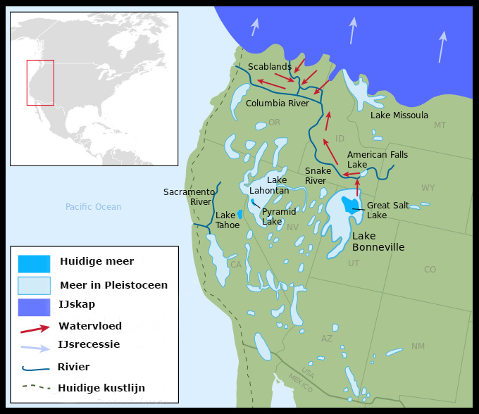 Pleistocene epoch map showing the extent of the Lake Bonneville Flood and Pleistocene lakes in northwestern United States around 14.5000 radiocarbon years (~17,500 calendar years) before present. Ice Sheet Pleistocene Lake Present day Lake Direction of flood